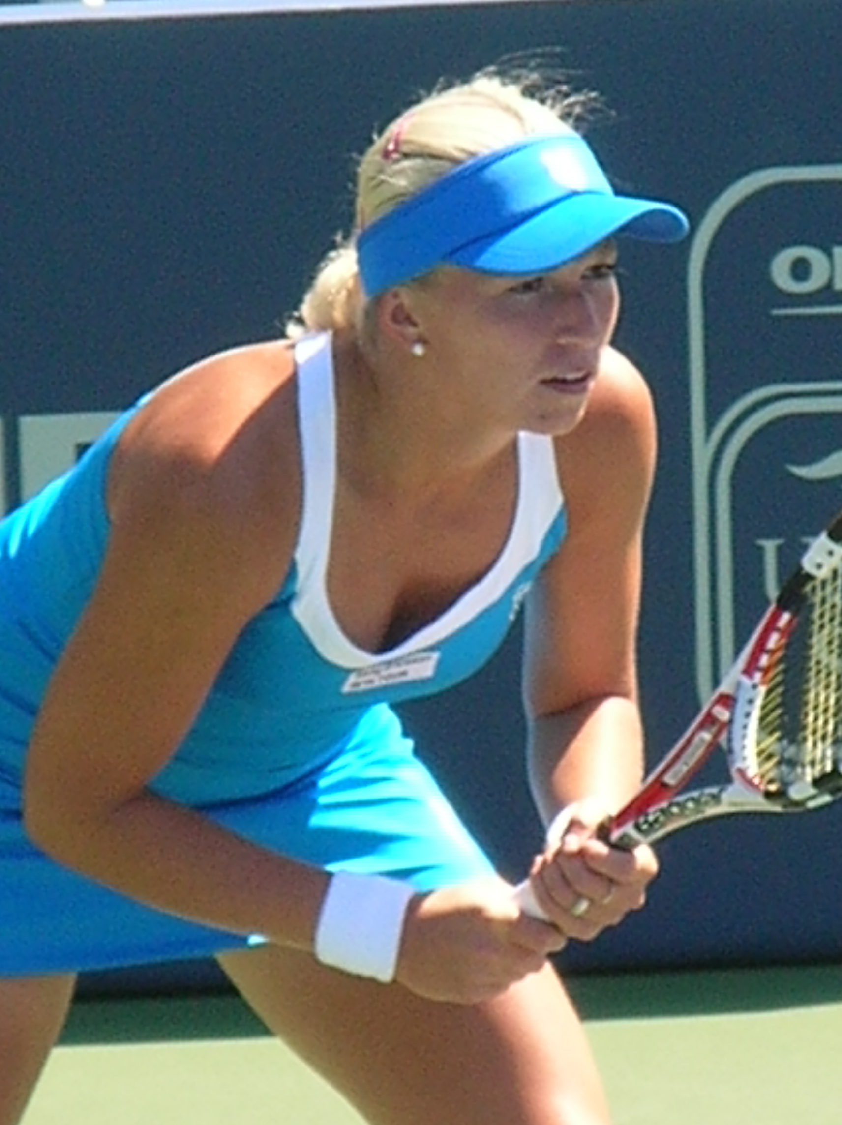 Michaëlla Krajicek in the second round of qualifying at the Bank of the West Classic at Stanford. She defeated Natalie Grandin 6-4, 7-6 (3).